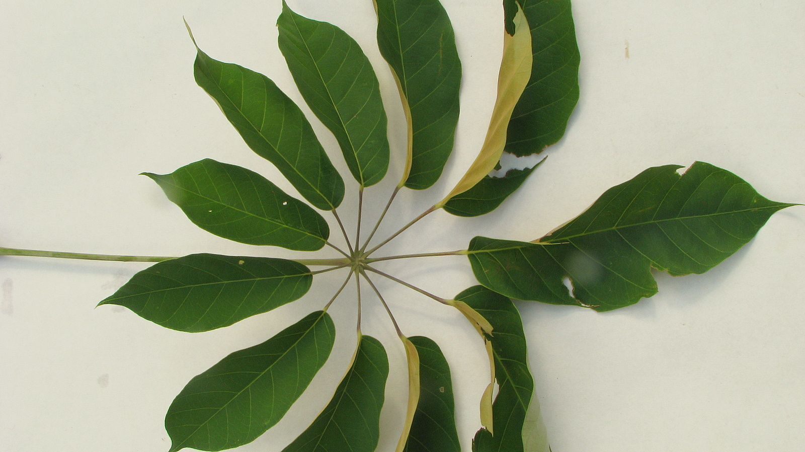 Schefflera morototoni (Aubl.) Maguire, Steyerm. & Frodin